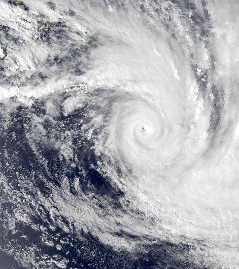 Severe Tropical Cyclone Anne on January 11, 1988